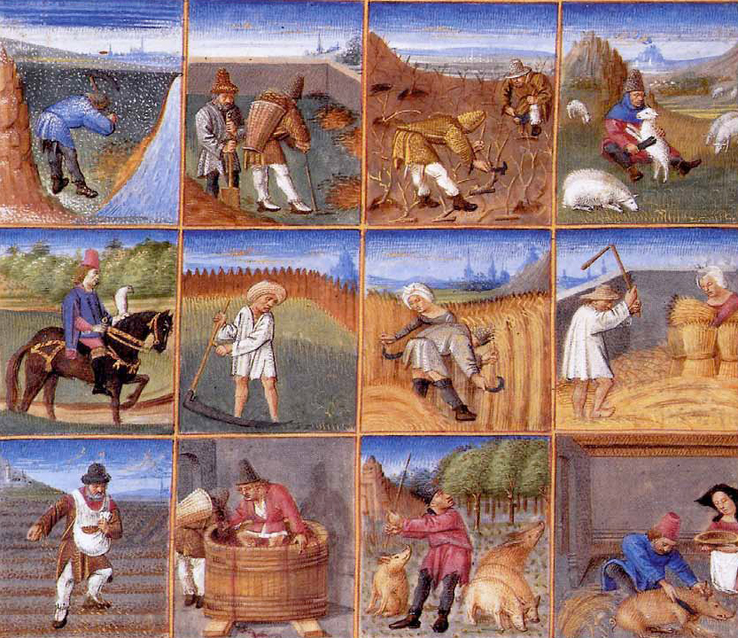 Agricultural calendar from a manuscript of Pietro Crescenzi, written c. 1306